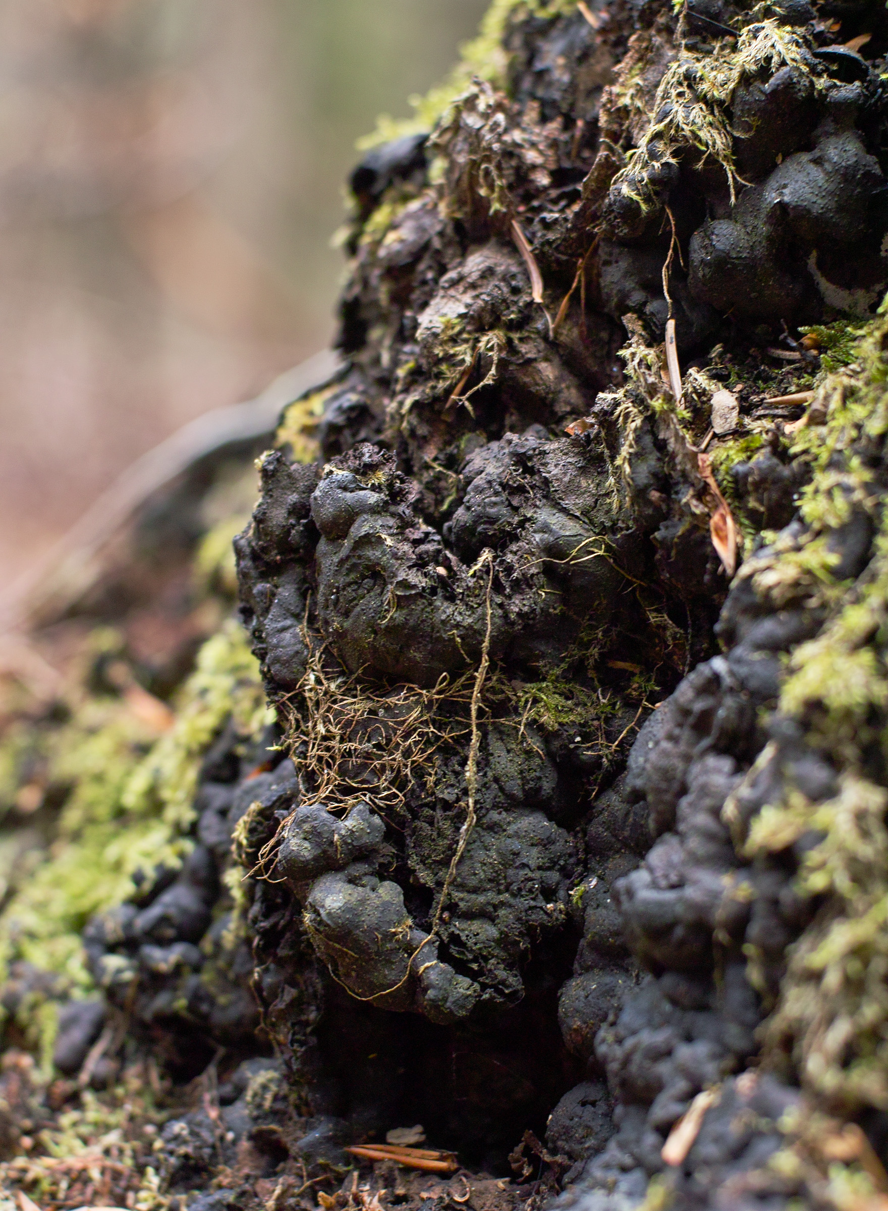 Hypoxylon deustum (Kretzschmaria deusta) on old beech stump, locality Křišťanov, Czech Republic